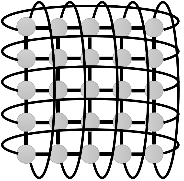 Leader election torus graph